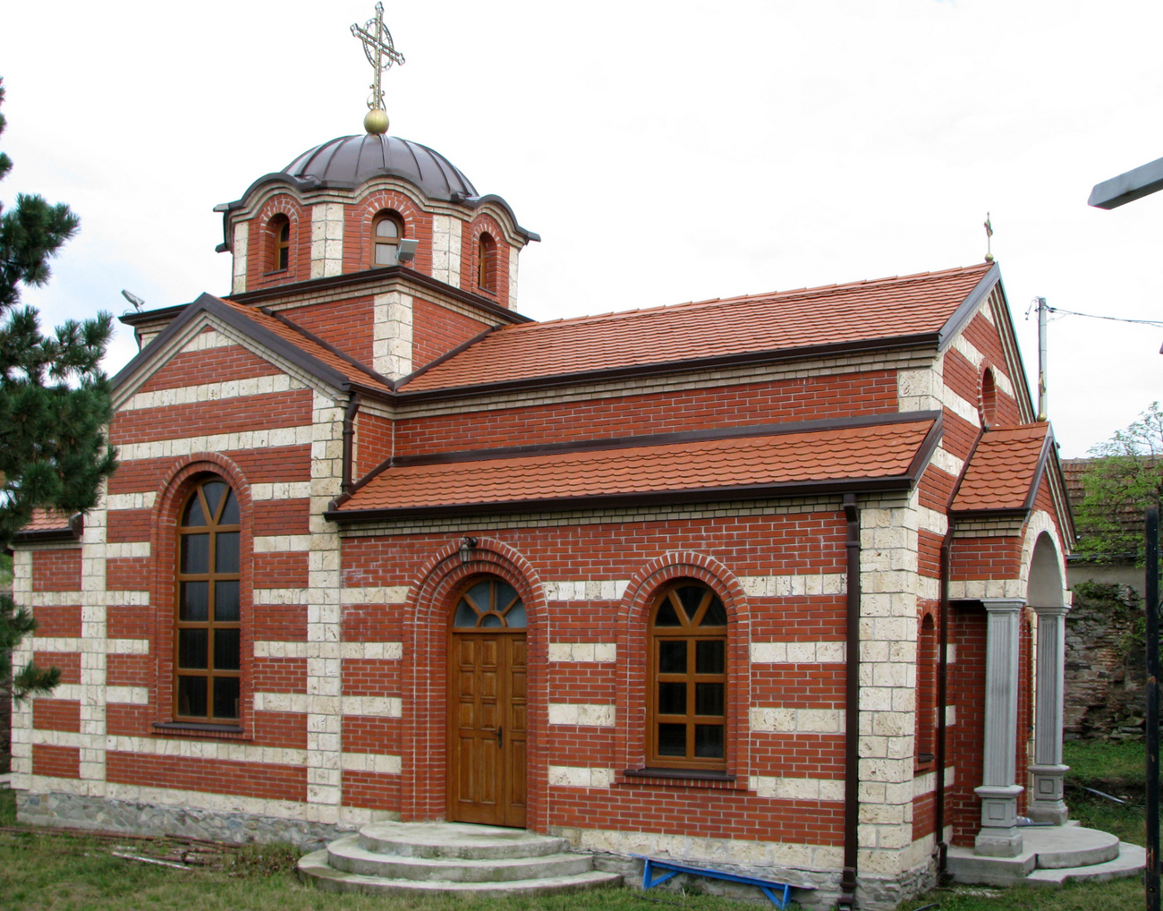 Church in Ram, Serbia